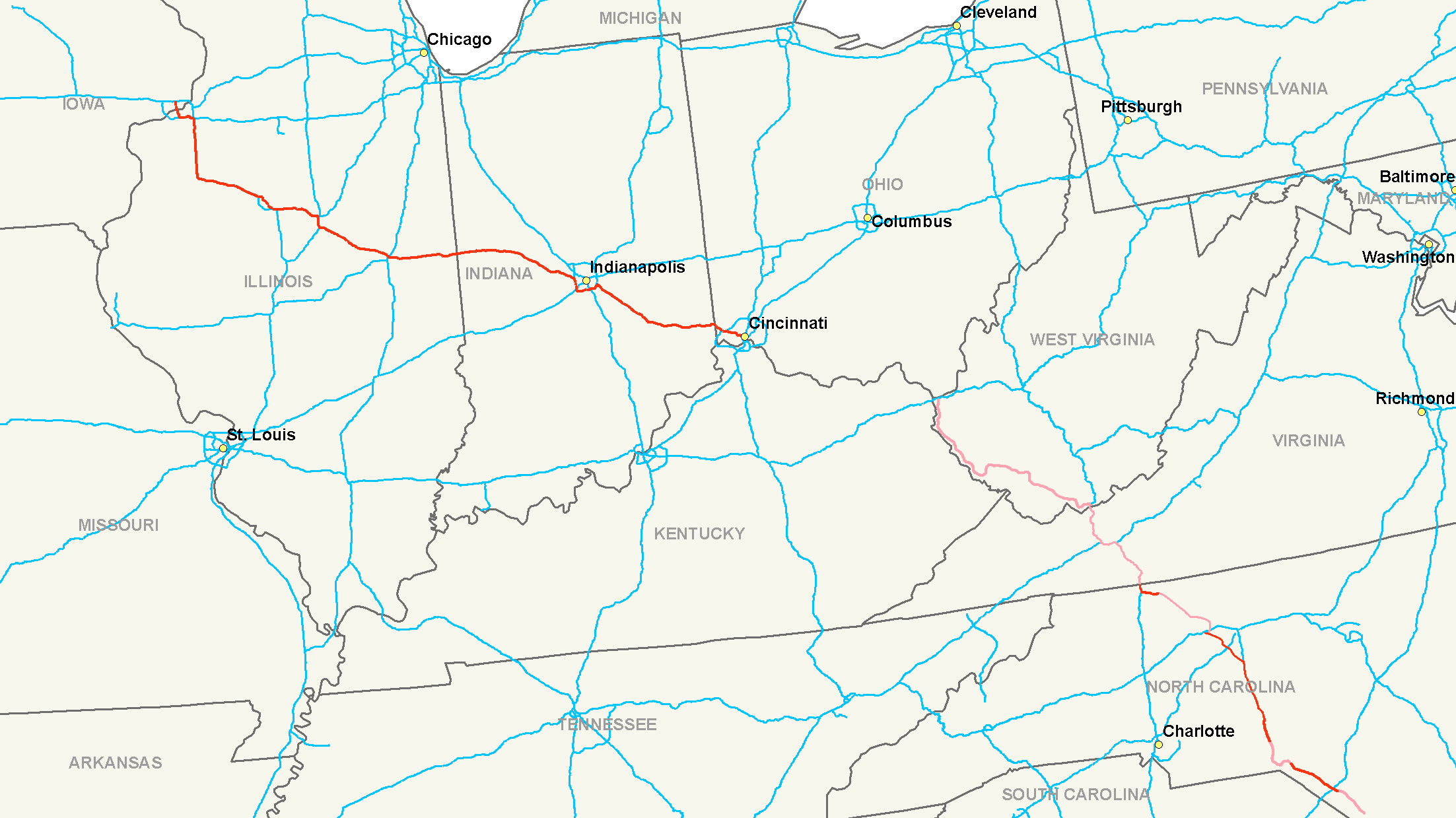 Map of Interstate 74